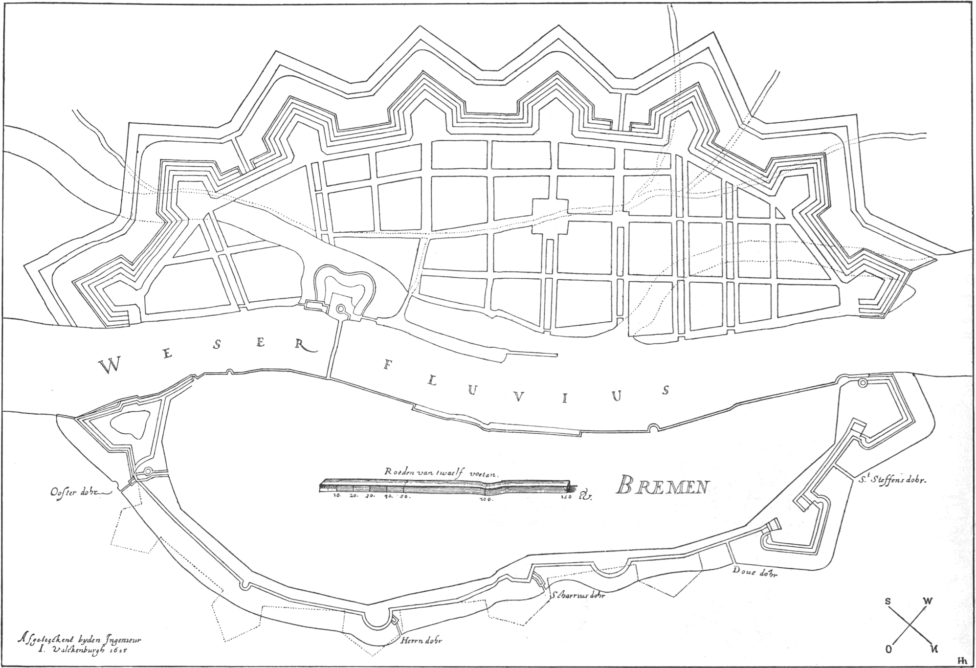 Plan for the construction of the extension of Bremen, called Neustadt; dotted lines; pre-existent structures: ways and a branch of Weser river